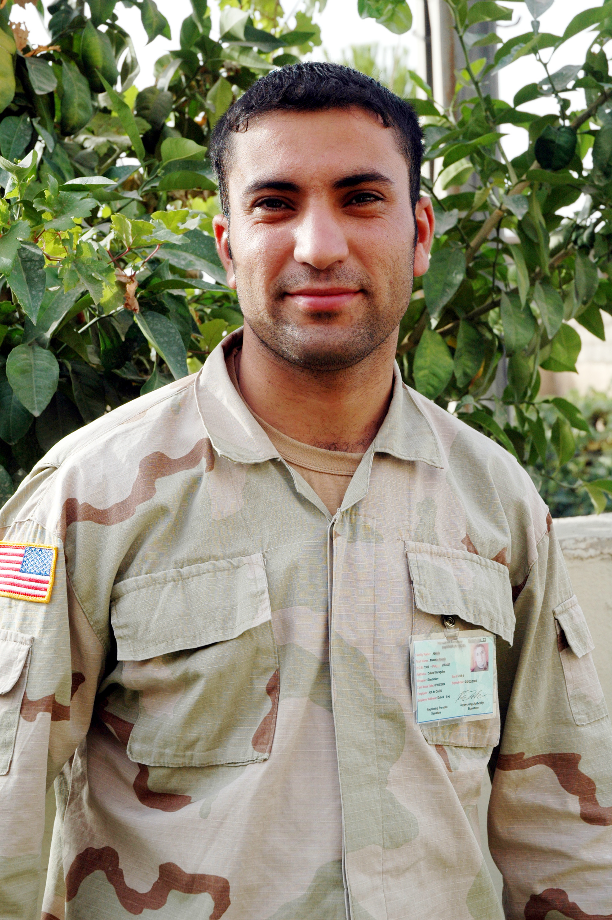 Kurdish Pesh Murga, Dohuk, Kurdistan, northern Iraq. Peshmerga means literally 'those who face death' kind of like the Latin moritori. Pishmarg is the Persian form of this word (Kurdish is an Iranian language). It comprises of pish (pre-) and marg (death).US Army Corps of Engineers (USACE) photograph by ACoE photographer Jim Gordon.